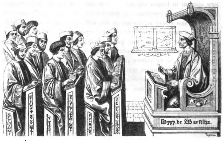 The most famous Italian historical romance,and the masterpiece of Alessandro Manzoni.